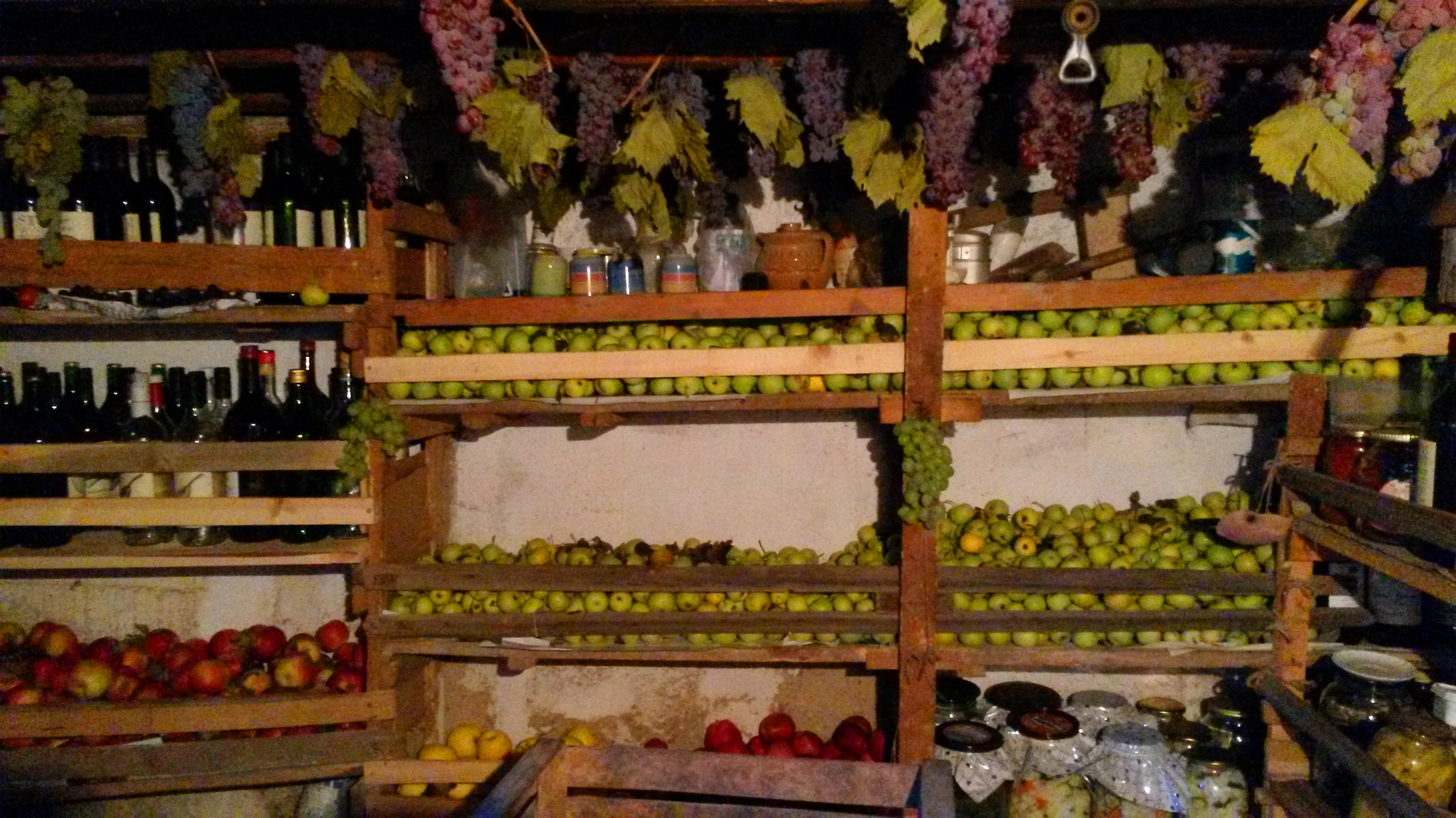 Macedonian vision. The traditional people in the Macedonia postpone food for the winter period, which they stored in one kind of basement called „Vizba“. The food is set off Zimnitsa,Turshija, Wine, Rakiya, Winter pears named „Badnikarki“, best pieces od Grapes who is consumed in winter, Apples, Peaches, Sour malt Pepperchina (Fheferoni), Ajvar, Malidzrano, Lutenitsa and remained products of home-made Macedonian ancestry.